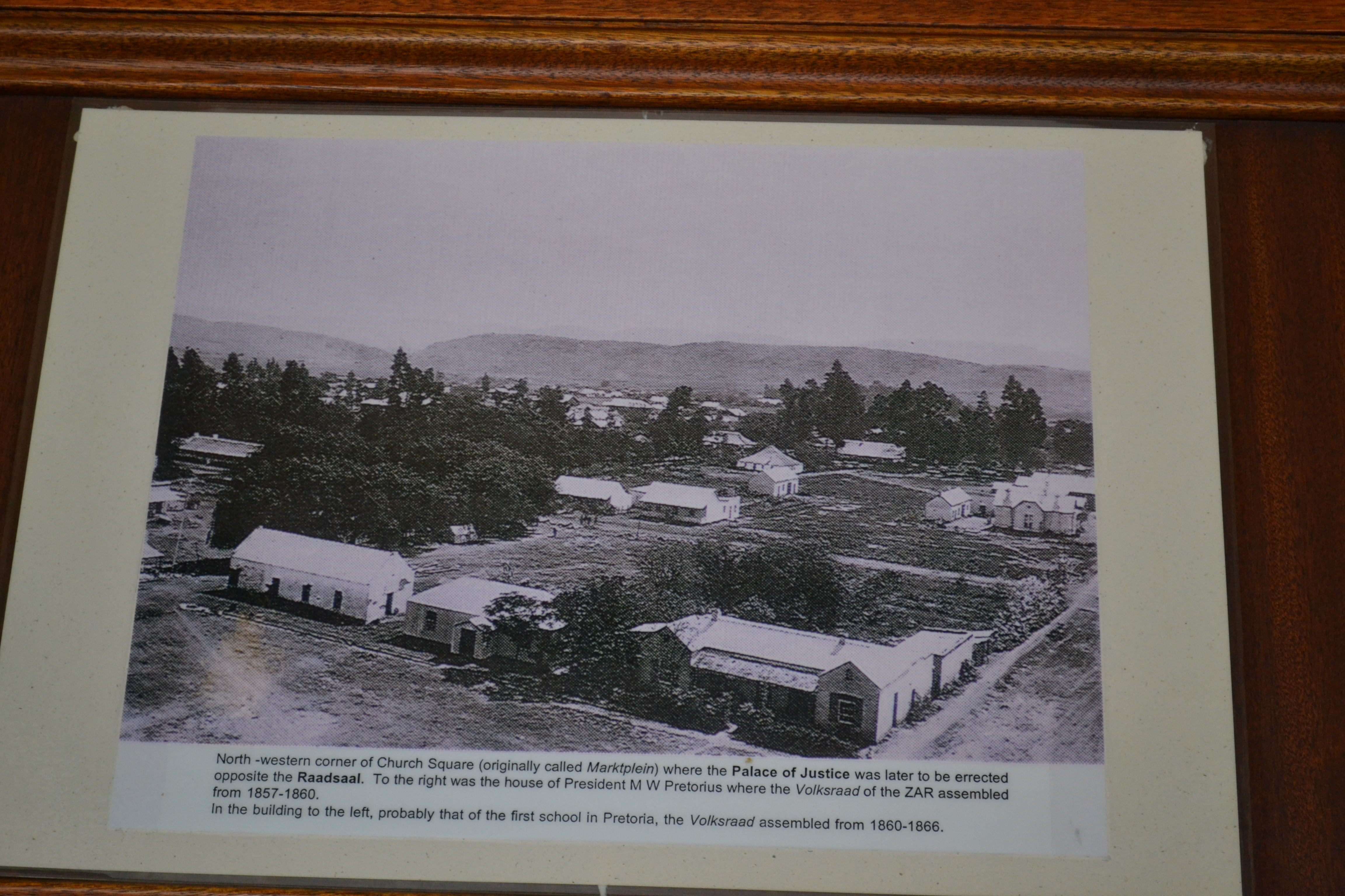 Cafe Riche Church Square Pretoria This media shows a South African Protected Site with SAHRA file reference 9/2/258/0012 .